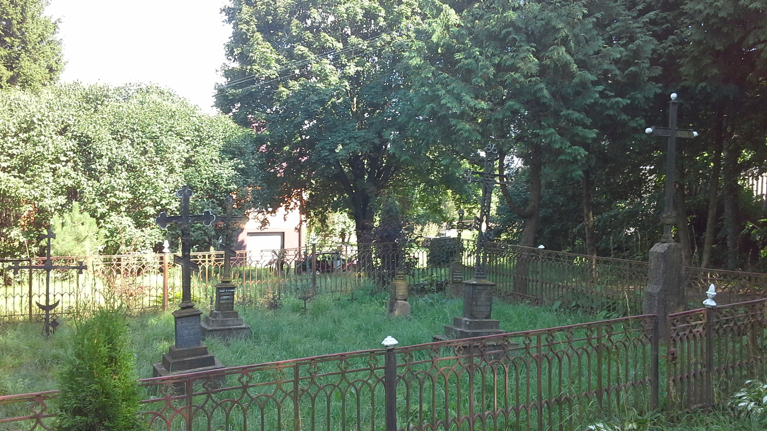 Nagrobki rodziny Zielińskich w wyodrębnionej kwaterze na wschód od cerkwi w Kośnej. Najstarsze z I poł. XIX w., ostatnie sto lat młodsze